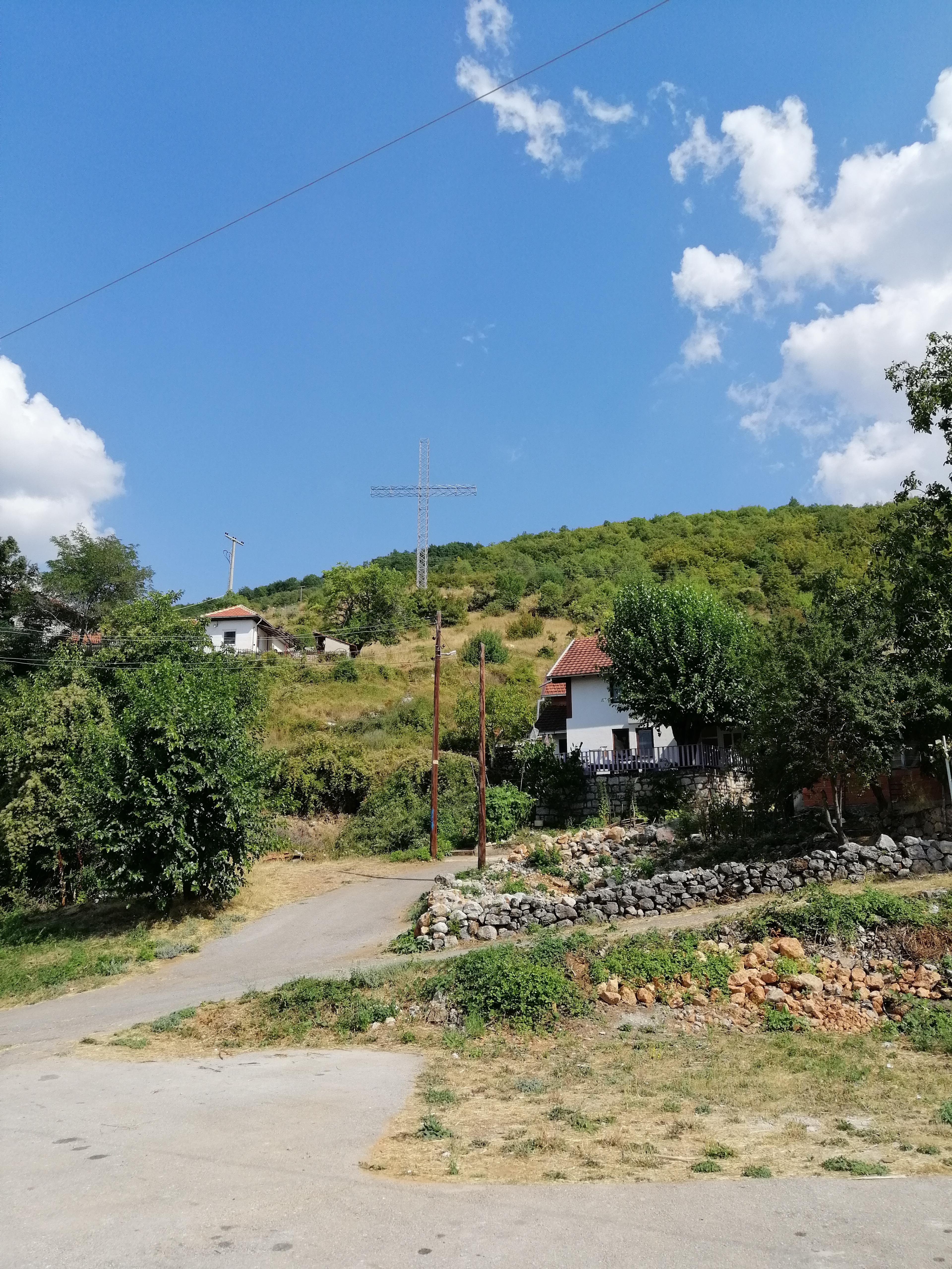 View in the village Ramne